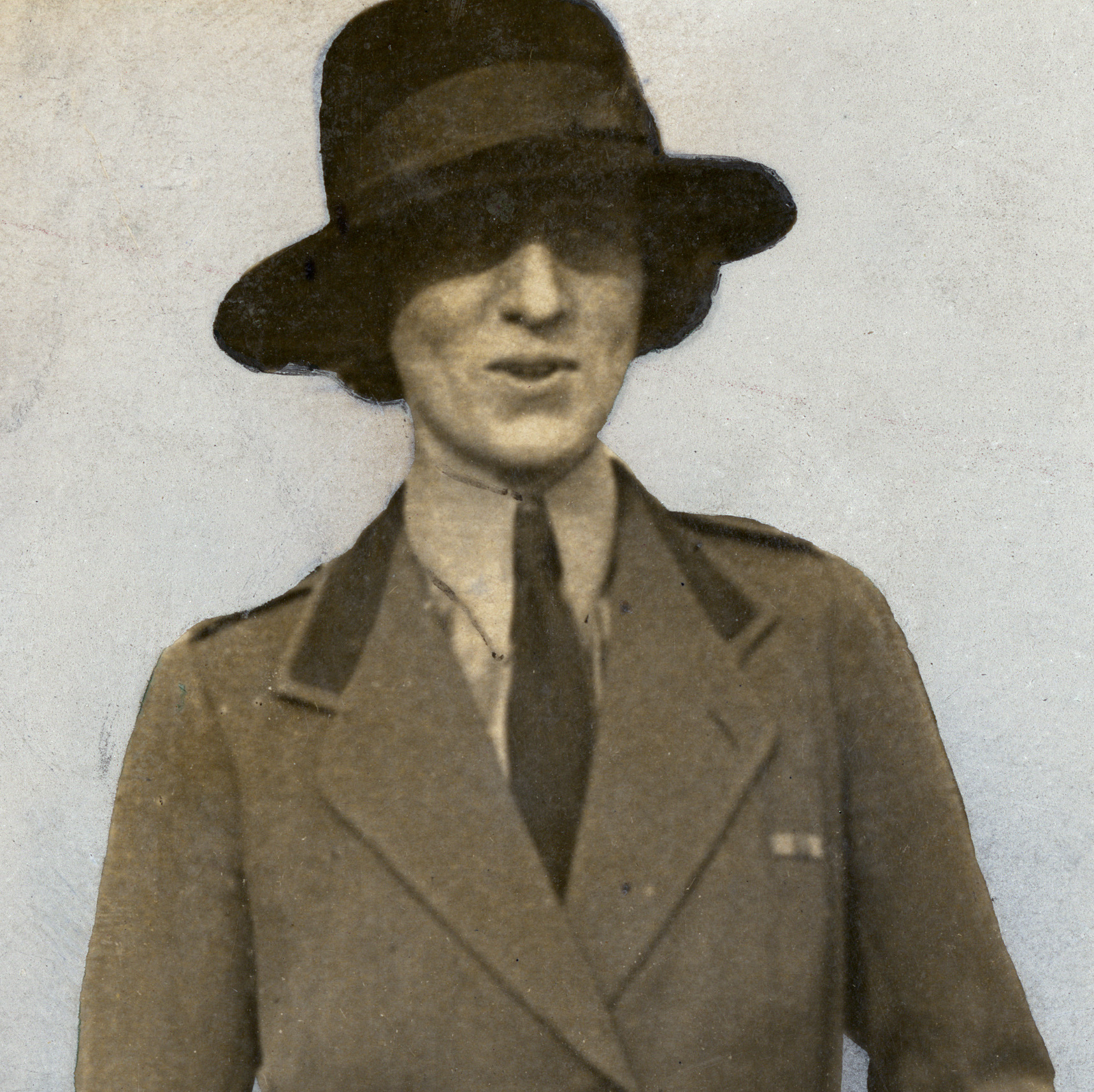 5FWI/B/2/2/19/003 Photograph, printed paper, monochrome (tinted), portrait of Lady Denman in uniform of Women's Branch of the Board of Agriculture (see entry 5FWI/B/2/2/19/004)